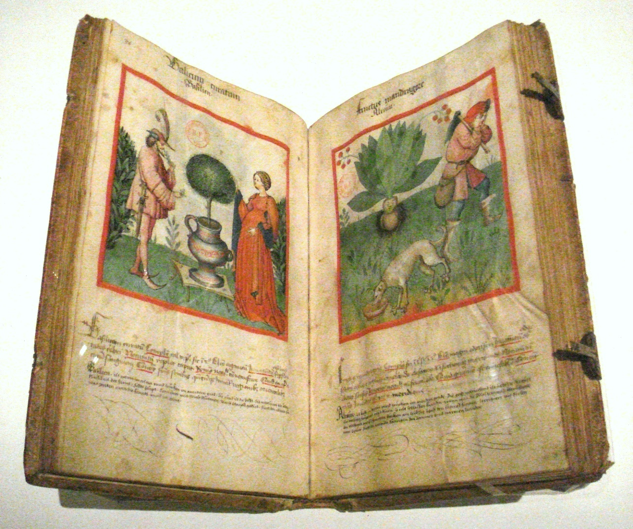 Ibn Butlan, Tacuinum Sanitatis, c. 1450, BnF Paris, Ms. Latin 9333. Folios 36v Basilicum citratum & 37r Fructus Mandragore